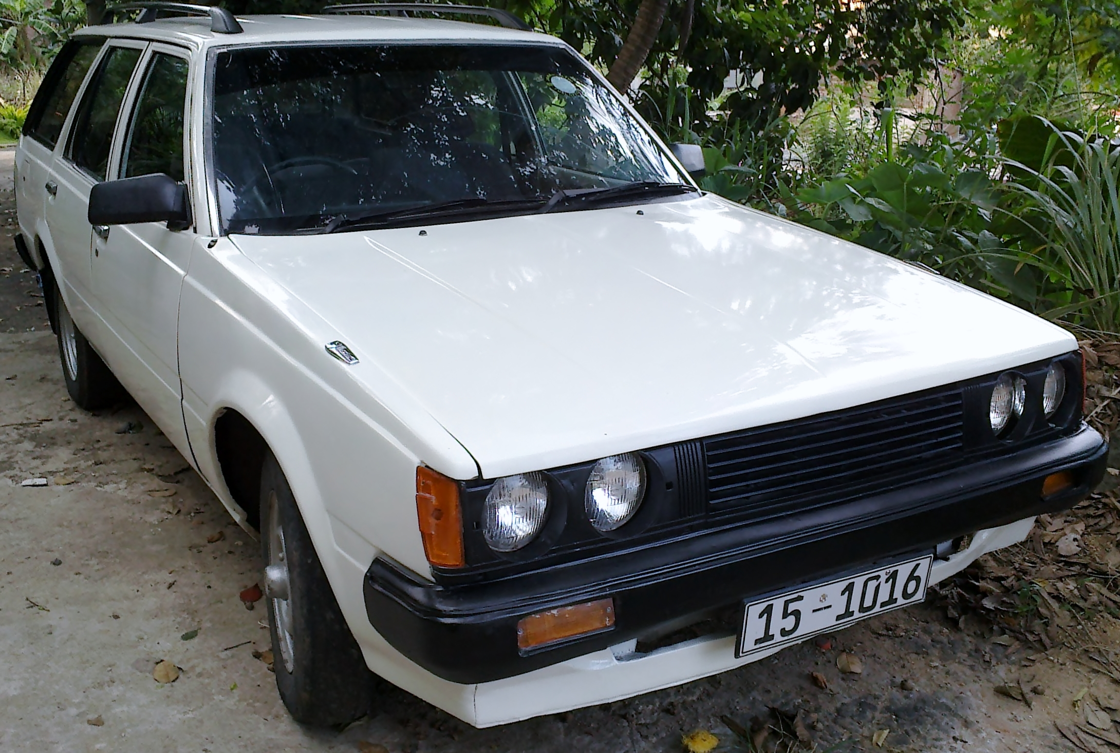 Photograph of Toyota Carina Wagon KA-67 1984 Model